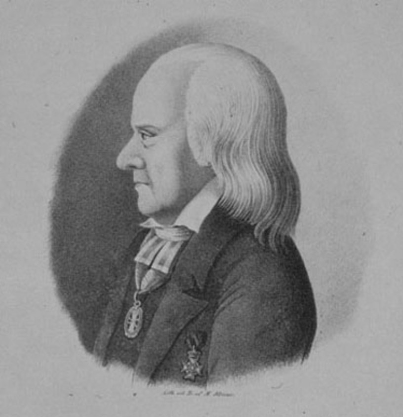 Swedish vicar and farmer Gomer Brunius (1748-1819)